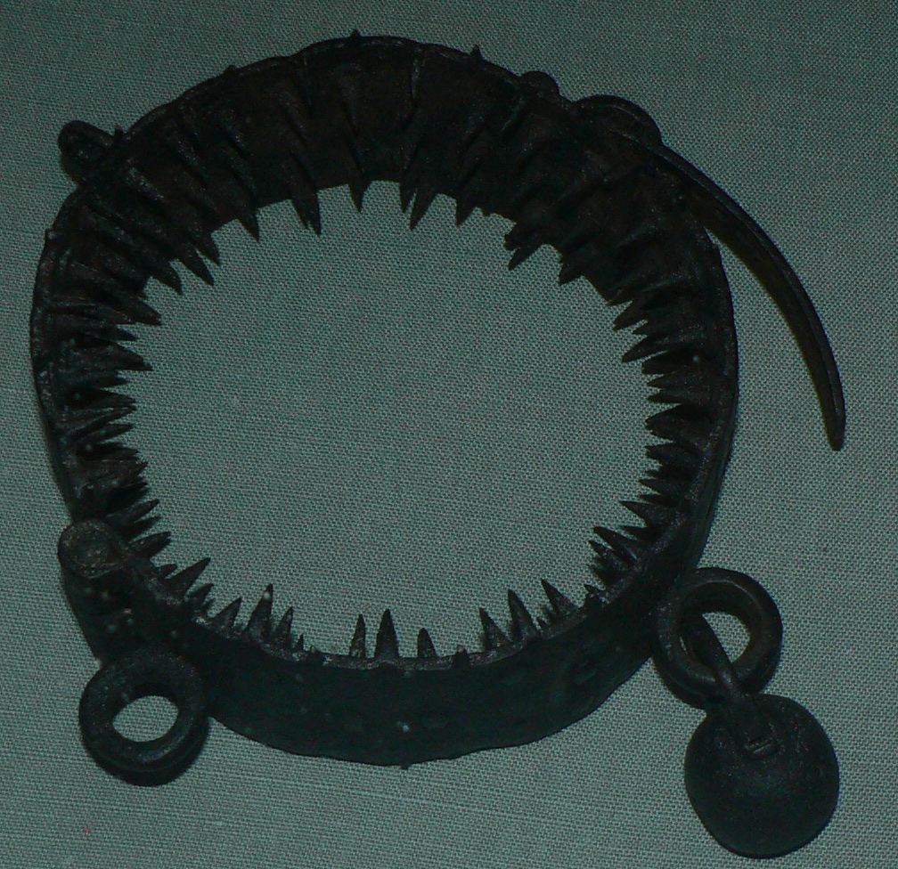 torture collar (Gravensteen castle, Gent, Belgium)